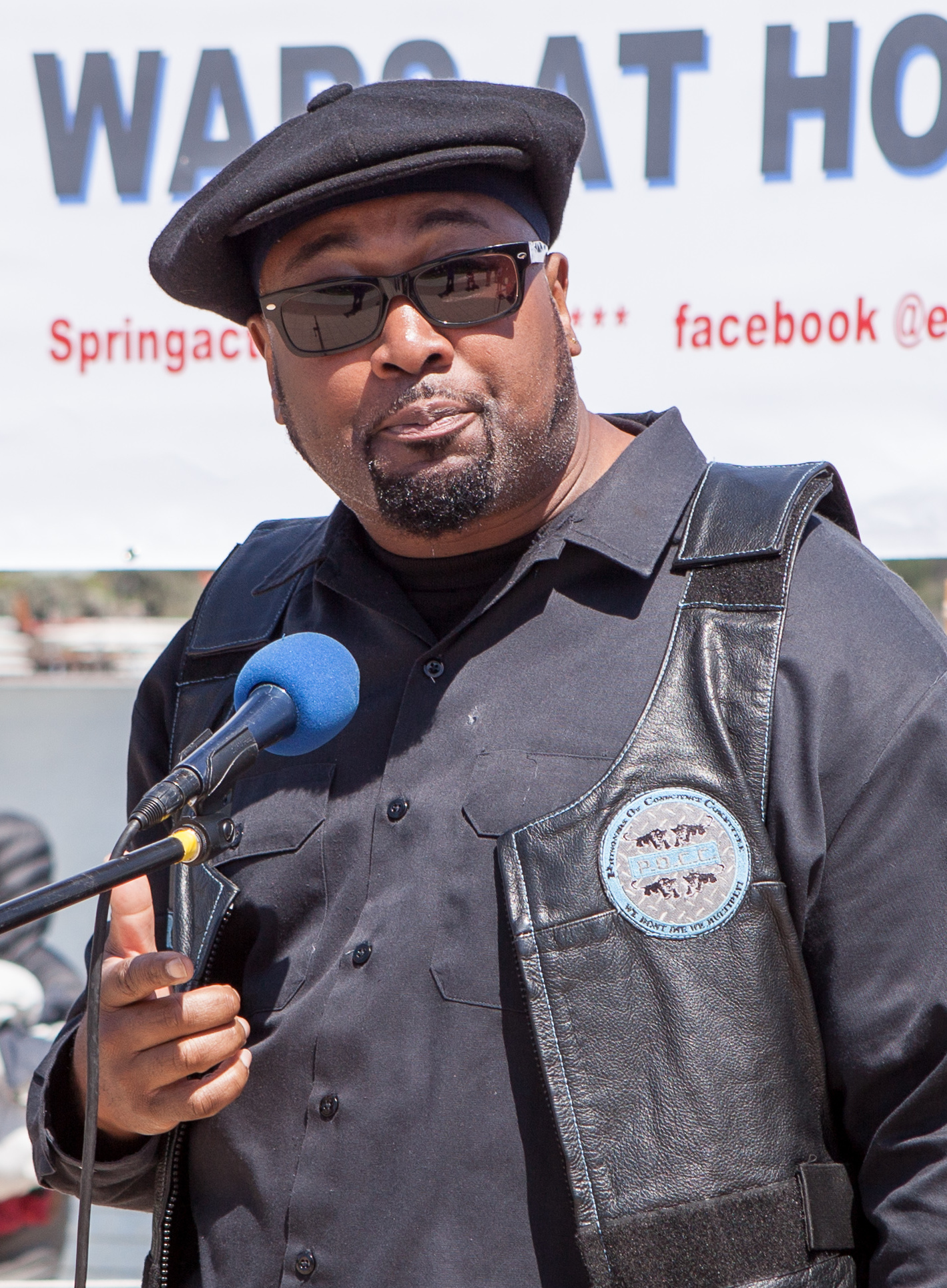 Activist Fred Hampton Jr. speaks at the "End the Wars at Home and Abroad" Spring Action 2018 in Oakland, California.